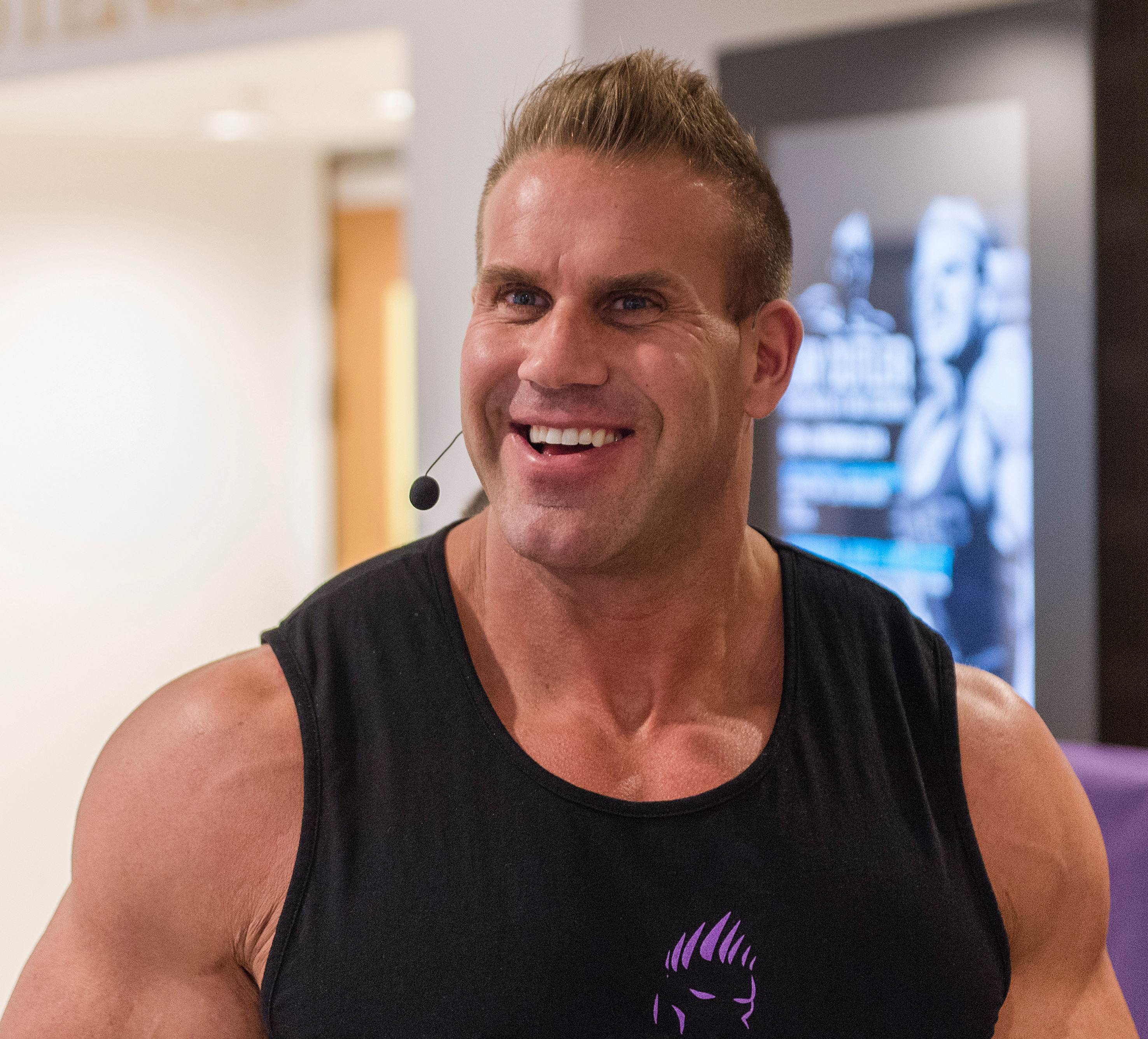 Jay Cutler – Loaded 050